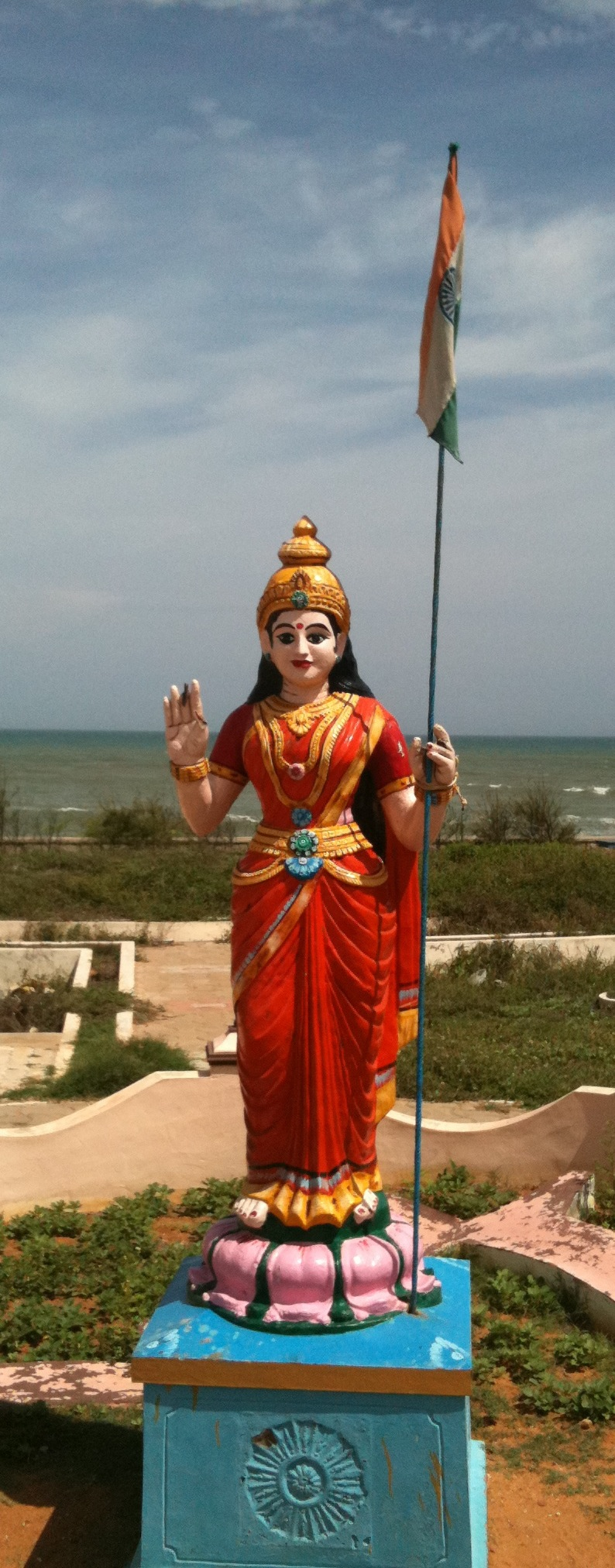 This "Bharatha Matha" stature is located in Kanyakumari, tamil nadu, India.